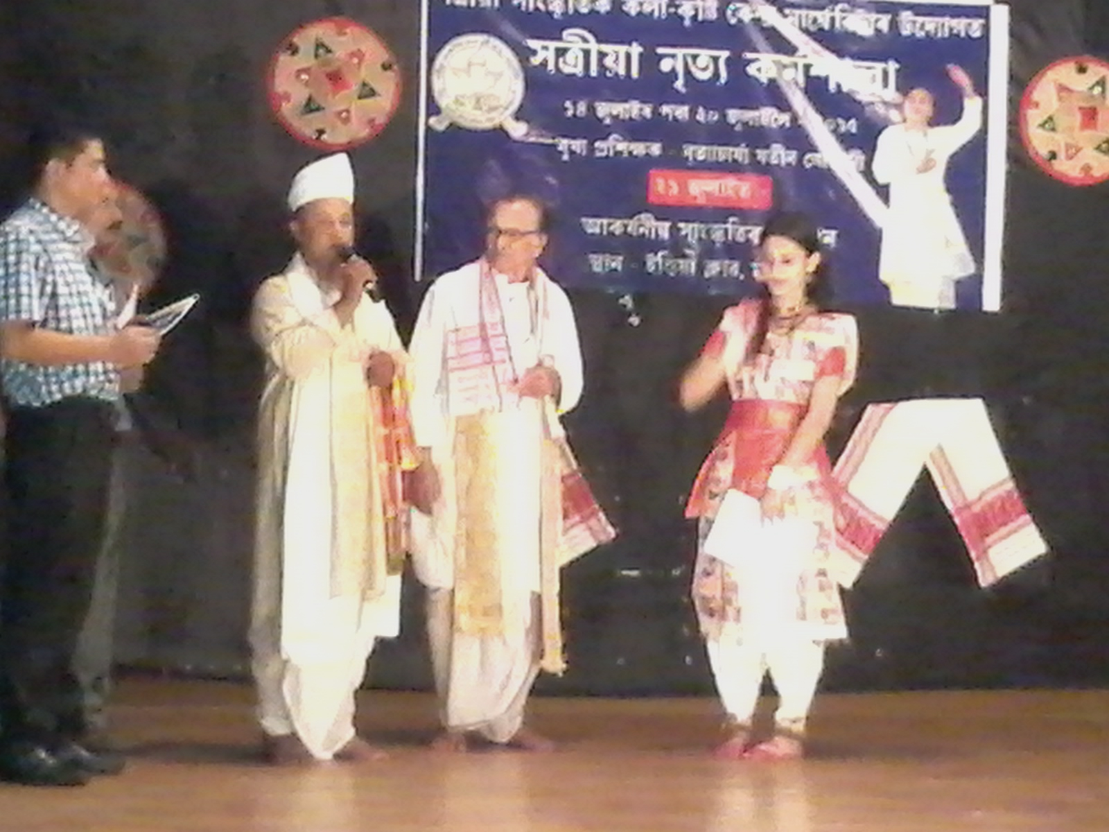 Tileswar tamuli with Padmashri Jatin Goswami jointly organised a sattriya development workshop at Digboi.